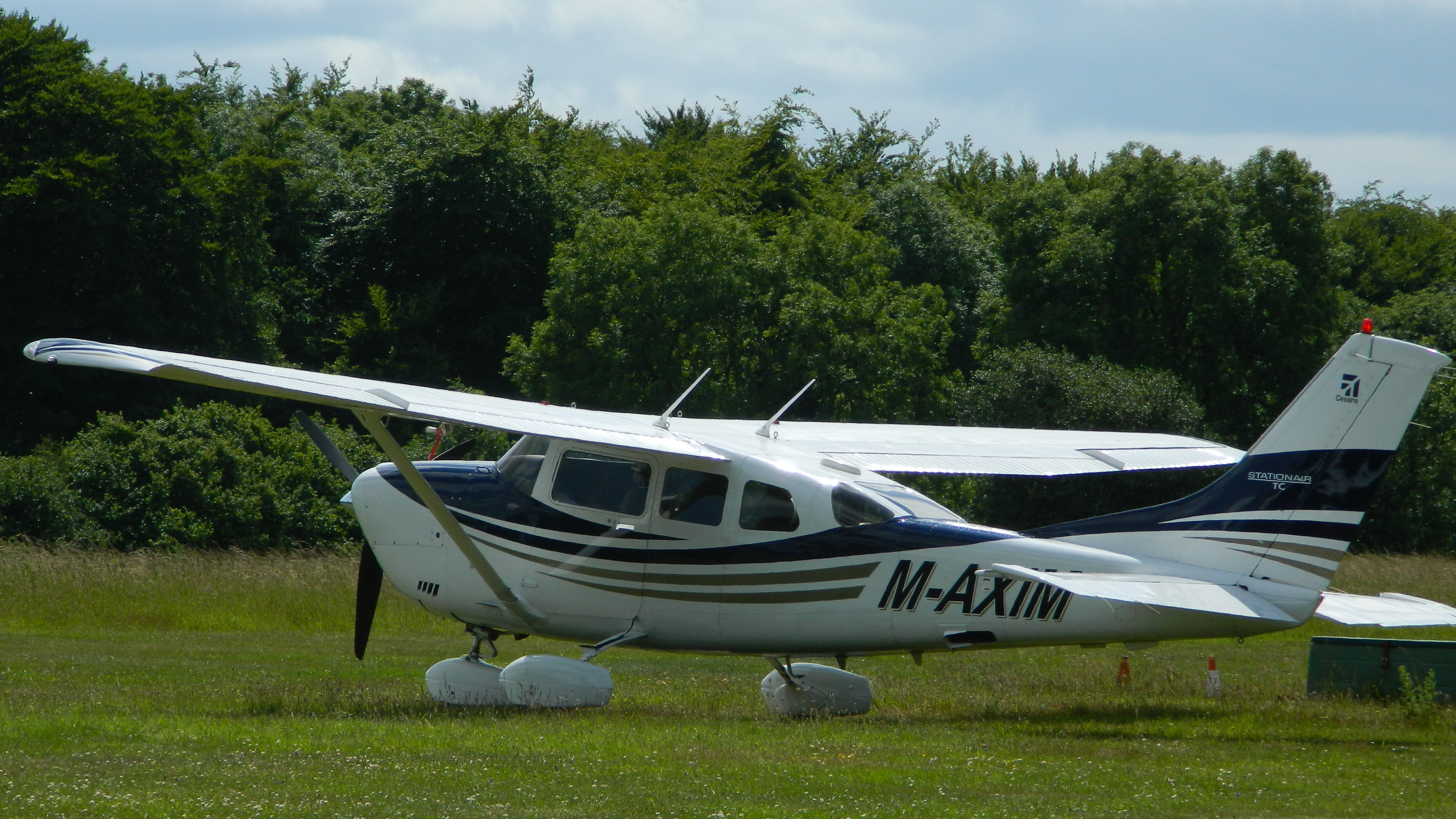 Cessna T206H Turbo Stationair registered in the Isle of Man as "M-AXIM" at Popham Aerodrome on 27 June 2015